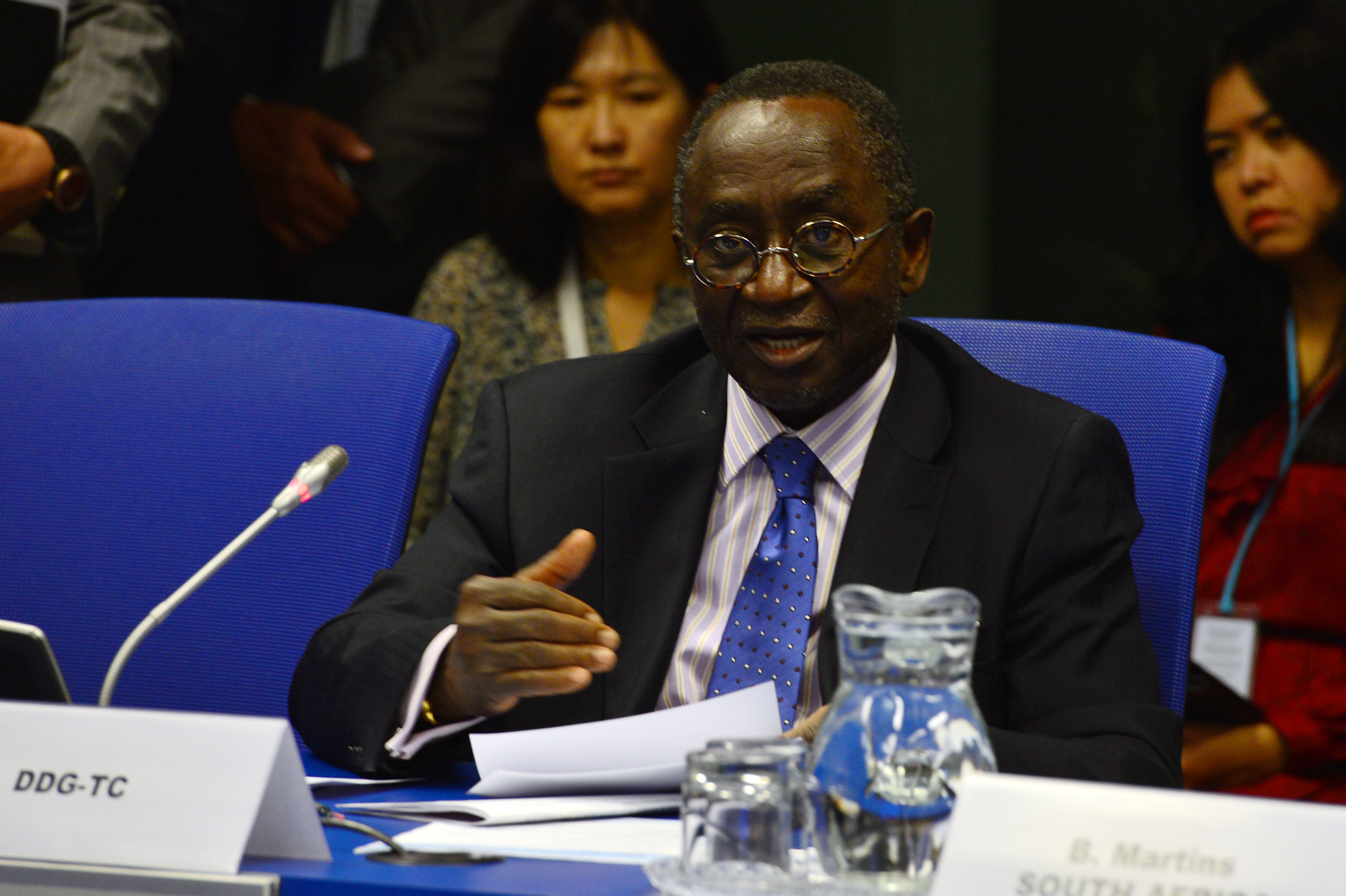 Mr. Kwaku Aning, IAEA Deputy Director General and Head of the Department of Technical Cooperation, opening remarks at the opening session of ReNuAL - Renovating the Nuclear Sciences and Applications Laboratories in Seibersdorf, a Side Event at the 57th General Conference. IAEA, Vienna, Austria. 19 September 2013. Photo Credit: Dean Calma / IAEA